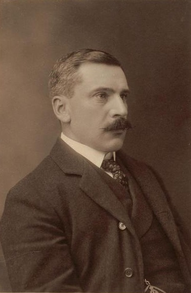 John Singleton Clemons, a member of the Australian Senate from 1901 to 1914